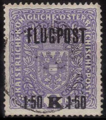 Overprint FLUGPOST 1,50 Kr on 2 Kr modified colour for use in first airmail issue in Austria. Michel N°225.)